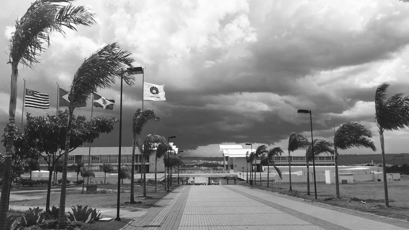 Entrada do campus